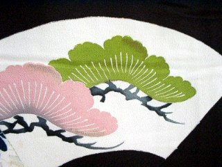 An example of yuzen dying technique.